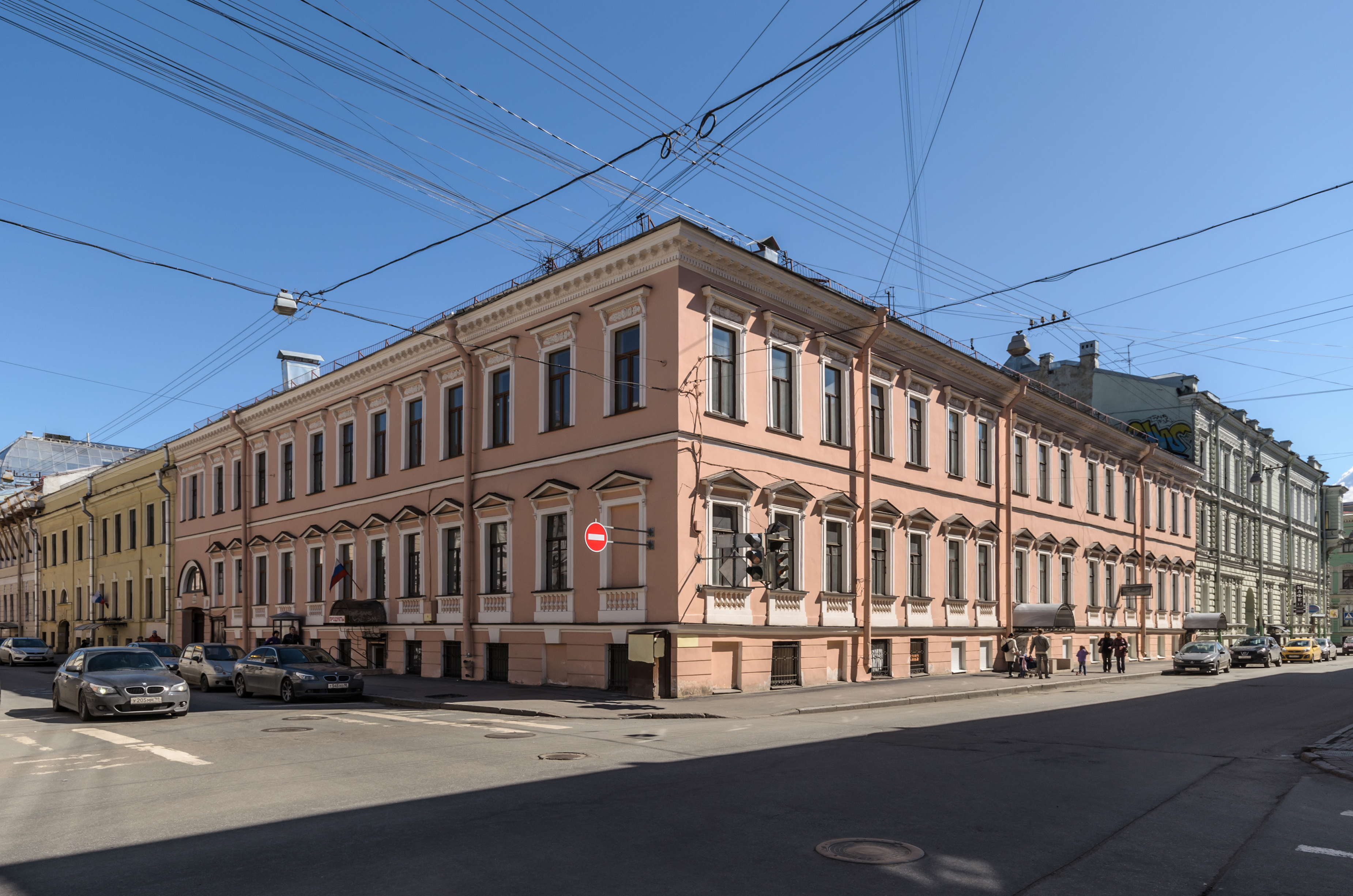 Adam House in Saint Petersburg